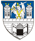 Coat-of-arms of the town of Domažlice, Czechia